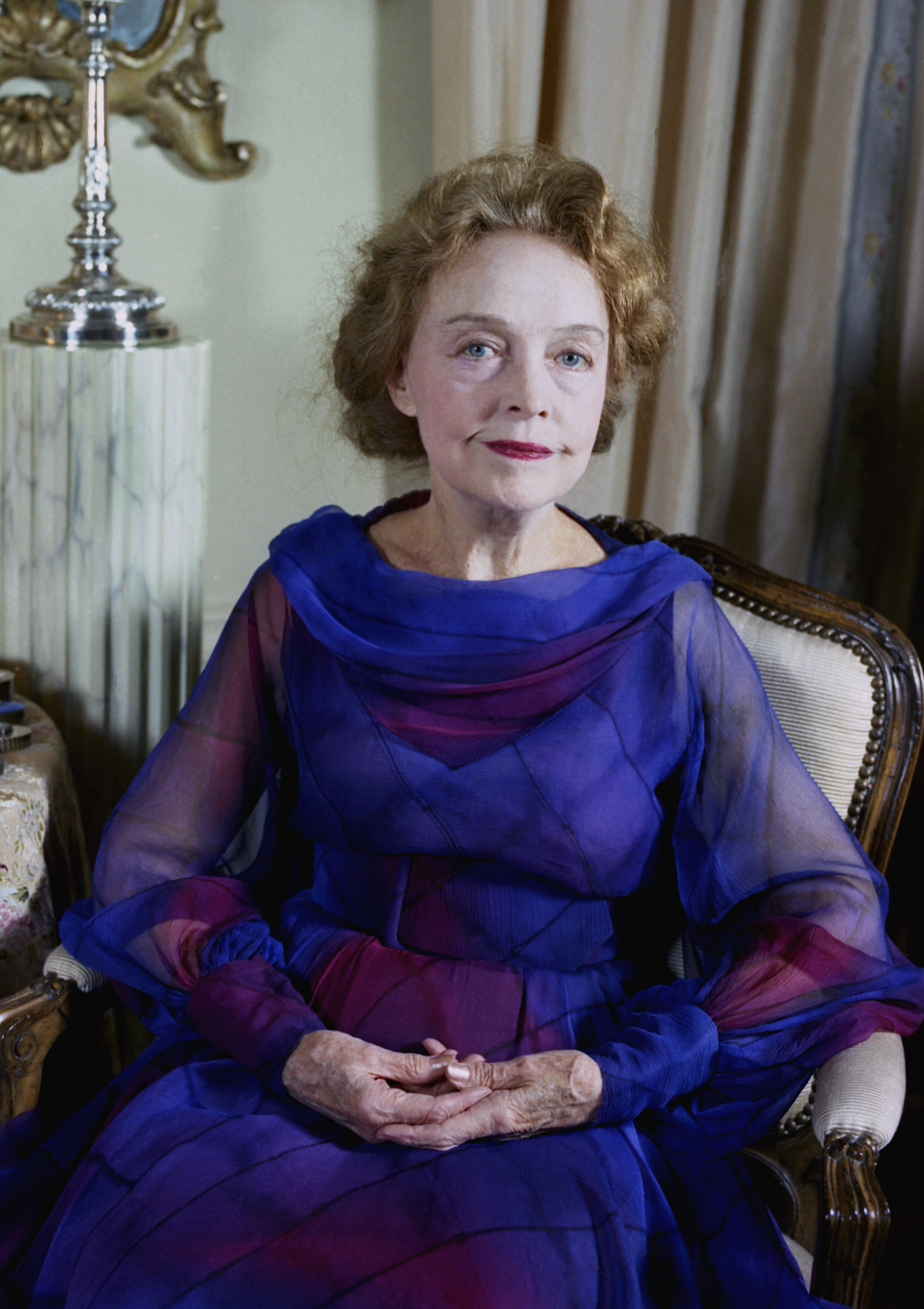 Lilian Gish in New York apartment